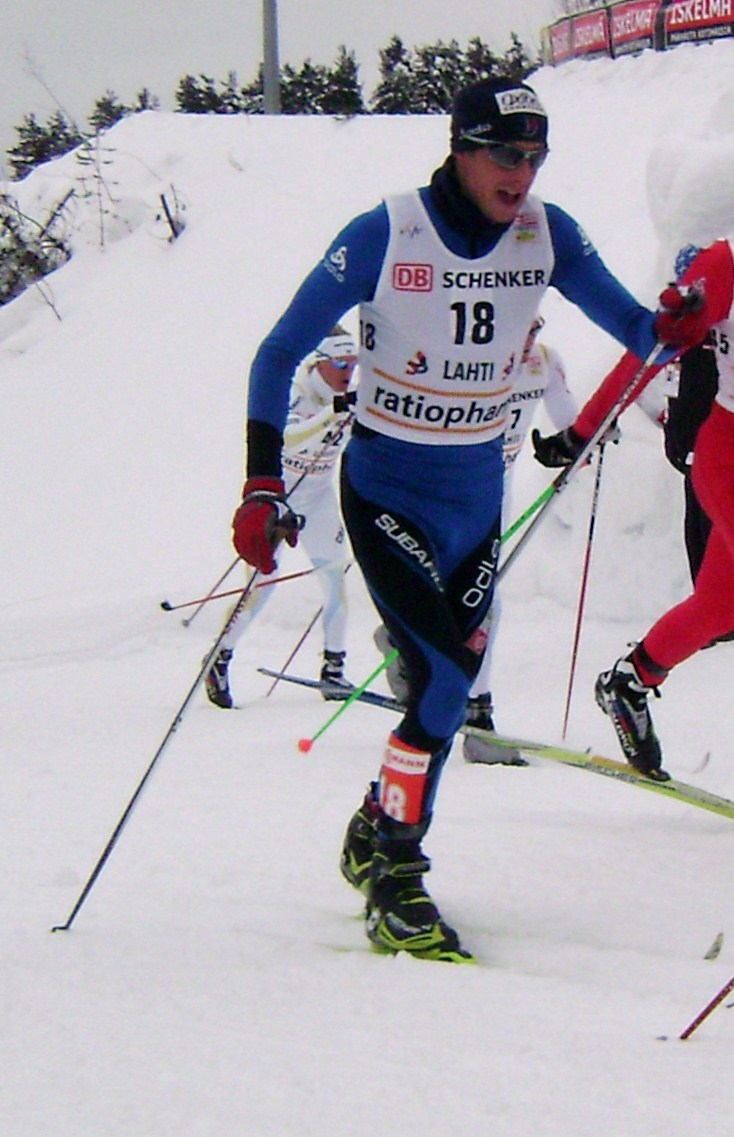 French cross country skier Emmanuel Jonnier at Lahti Ski Games 2010.